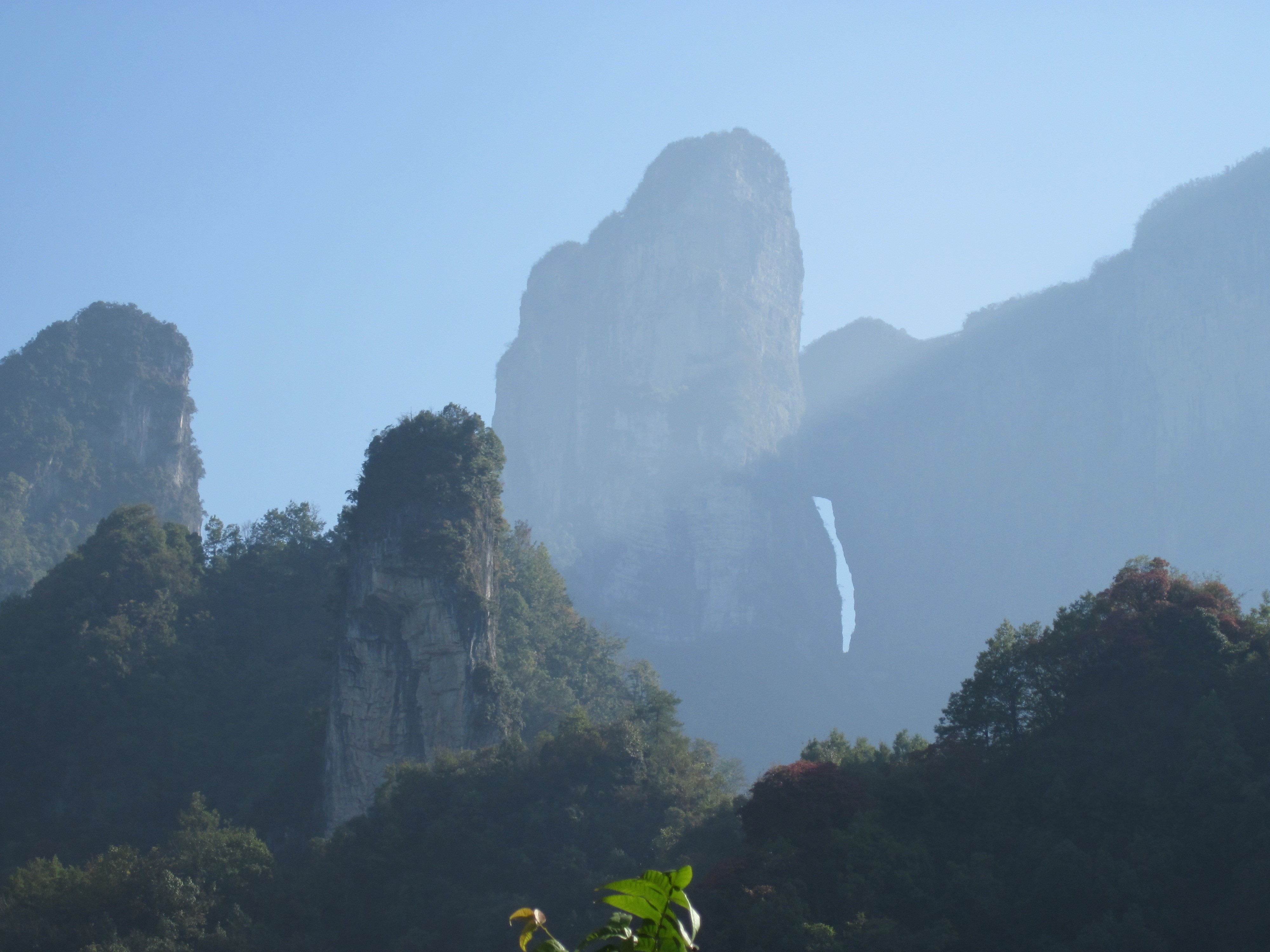 Tian Menshan Mountain,Zhangjiajie famous mountains, national forest park.